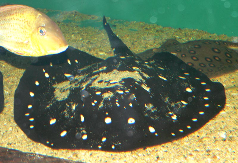 Photo of Potamotrygon henlei (bigtooth river stingray) at the Steinhart Aquarium in San Francisco